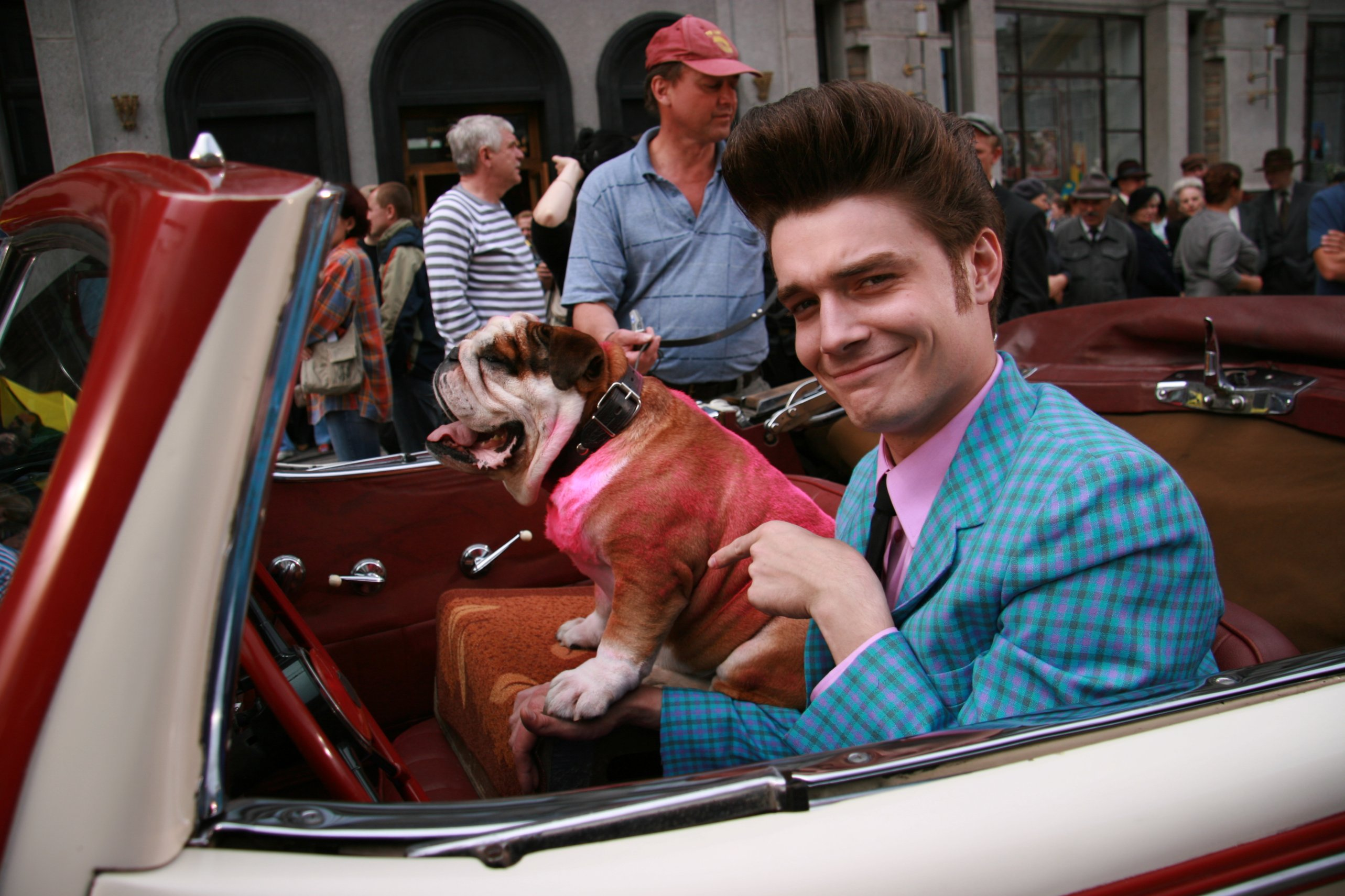 Maxim Matveev with English Bulldog Filya on Independence avenue, Minsk (production of "Stilyagi")